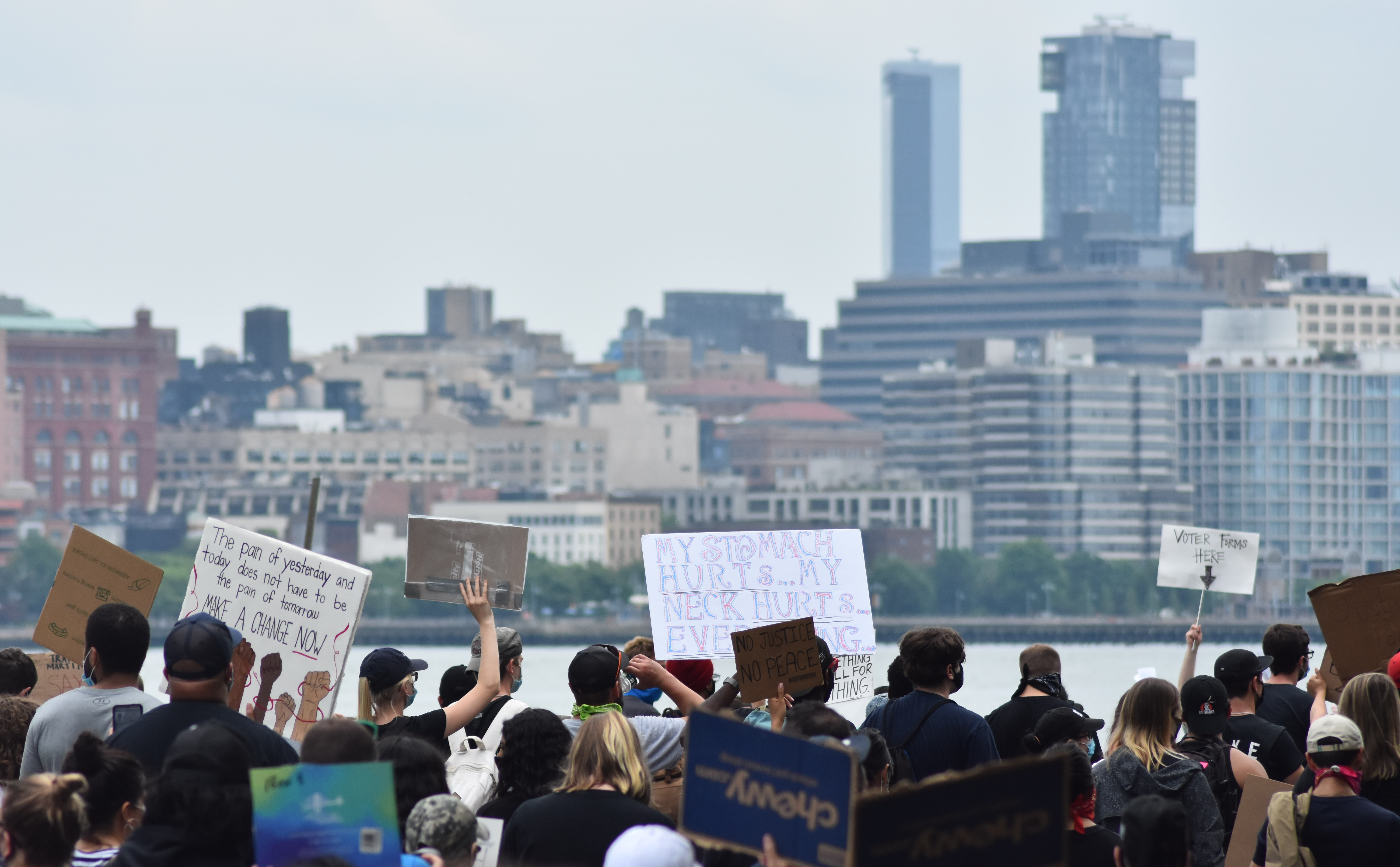 George Floyd protest marching from Maxwell Place Park to Pier A Park in Hoboken, Jersey on June 5, 2020